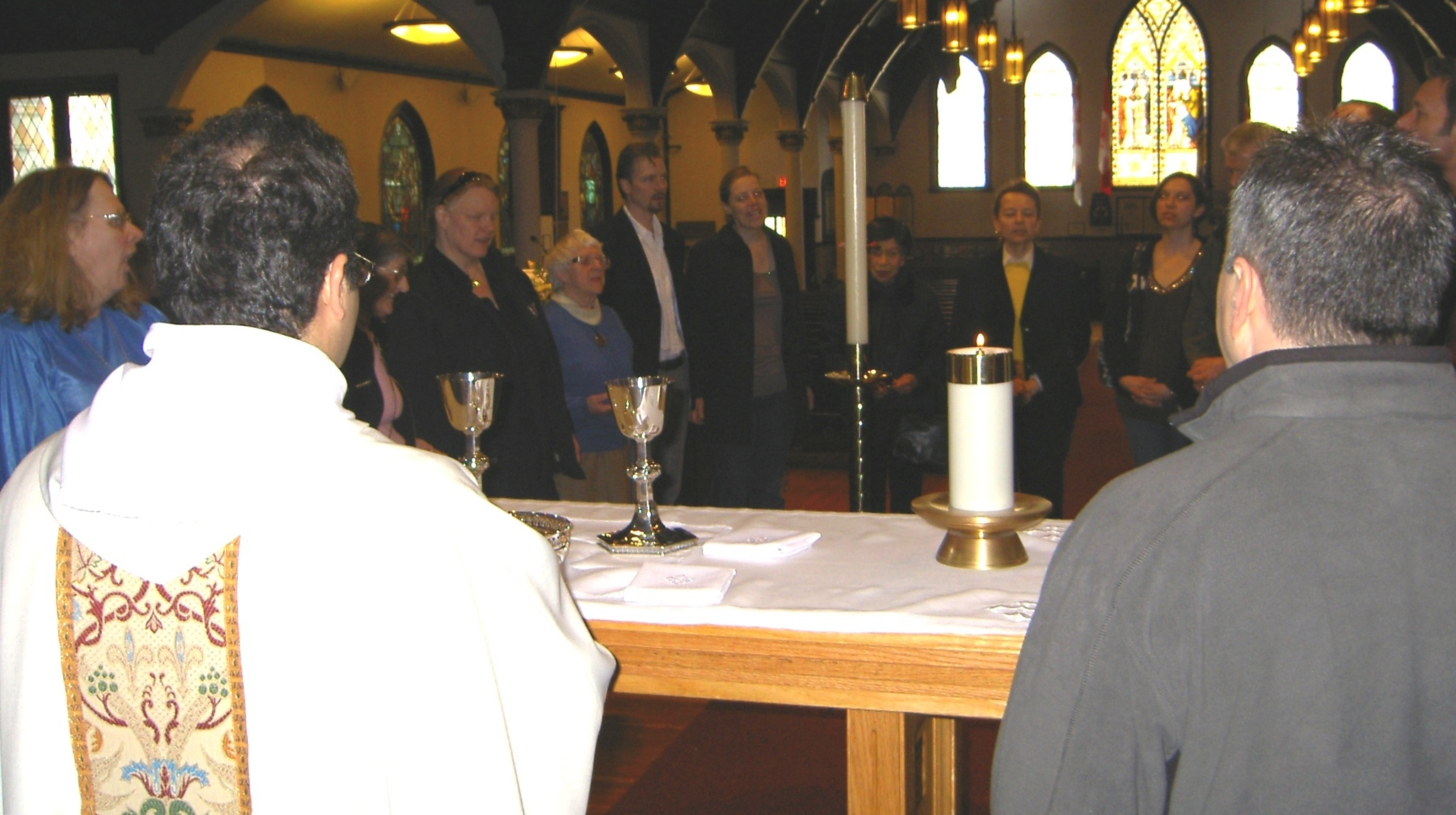 The priest is Yazeed Said of the Anglican Diocese of Jerusalem